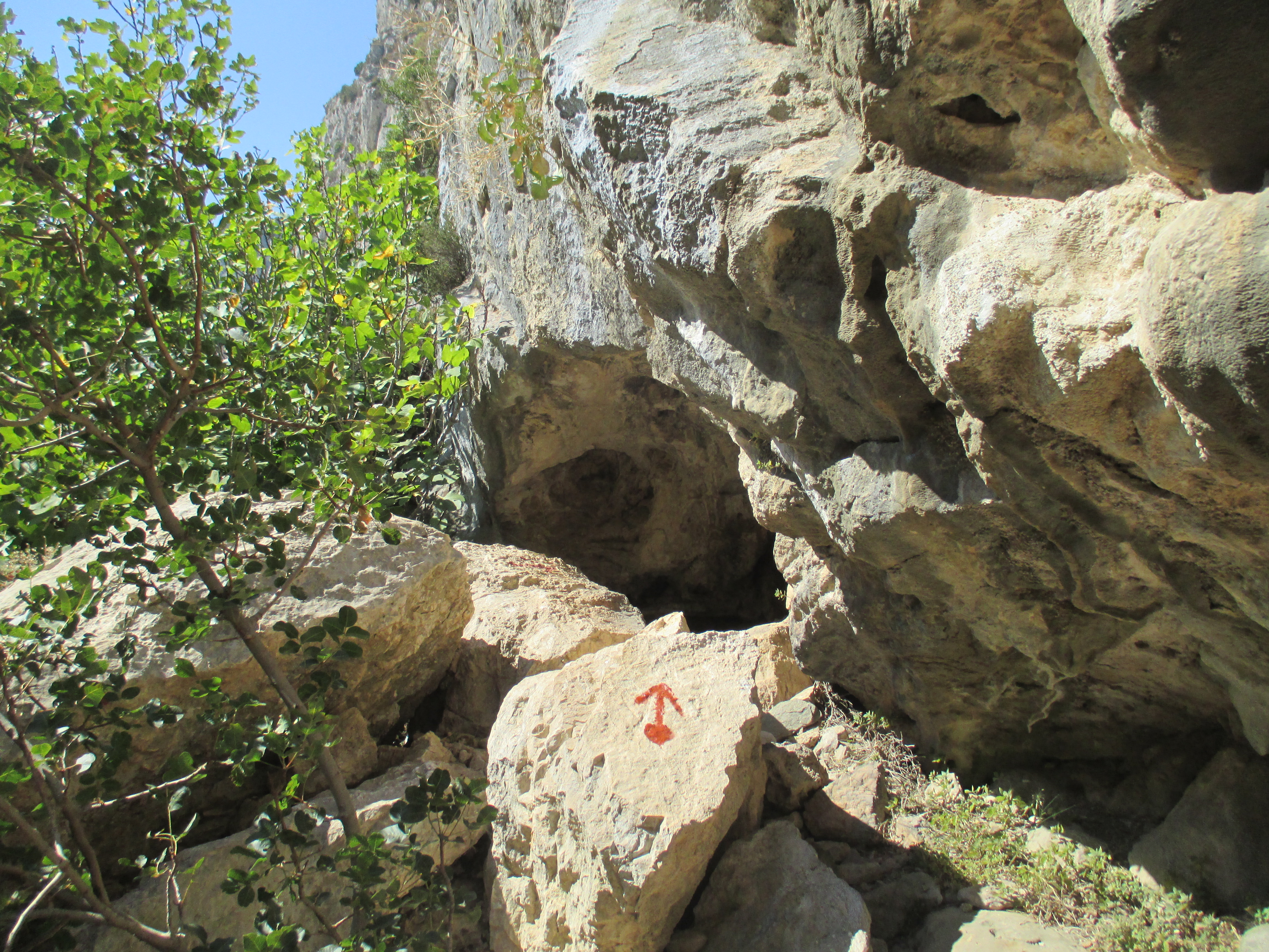 Pythagoras Cave, Mount Kerkis, Samos, Greece. Entrance to the cave.